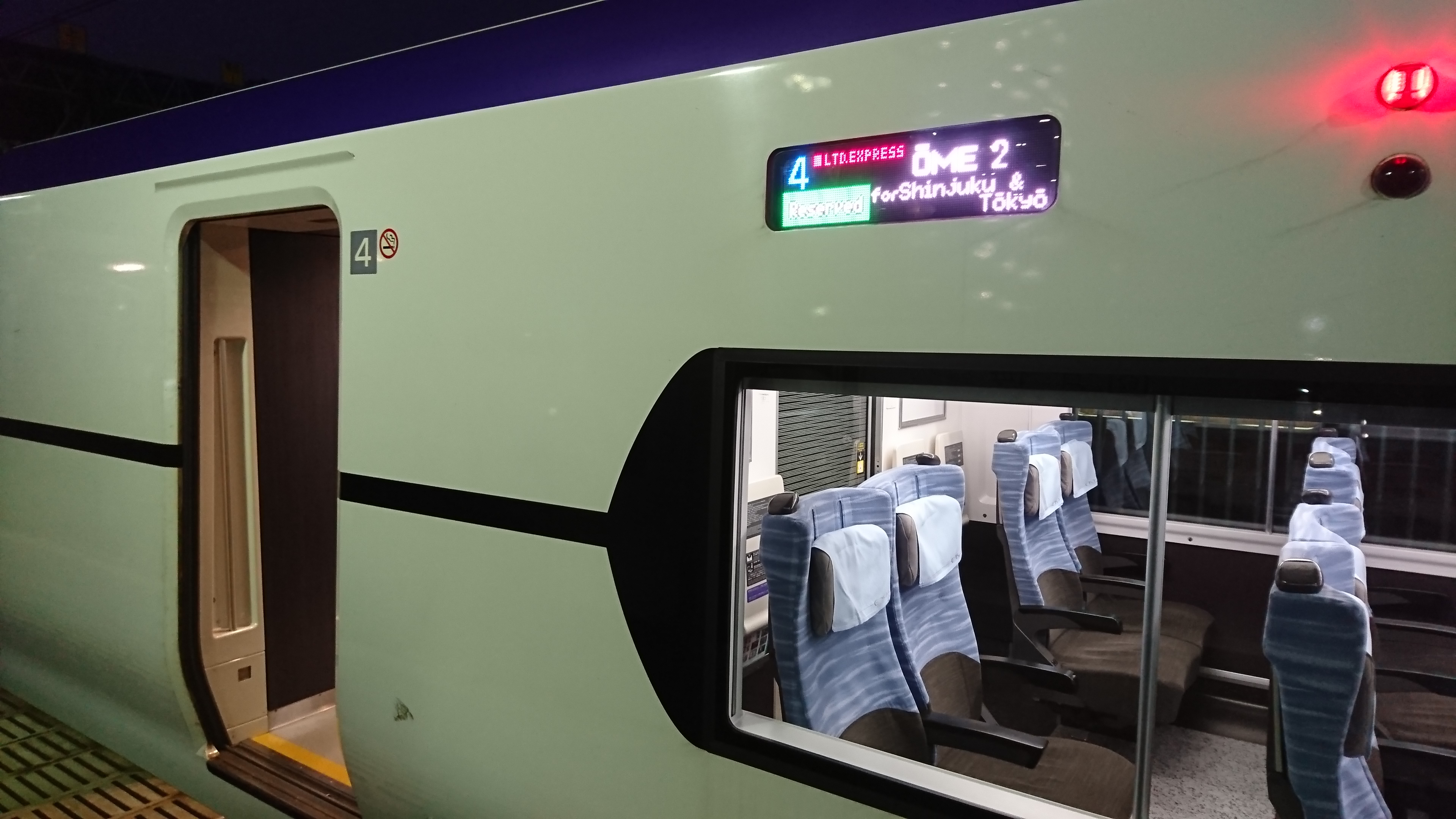 Ome Limited express at Ome station